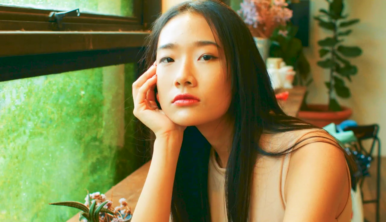 Chutimon Chuengcharoensukying, from a Cleo magazine promotional video